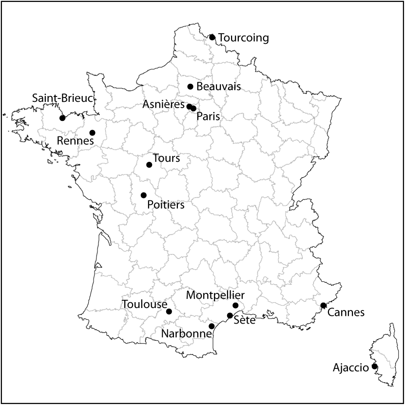 Map of participating teams of 2007-08 French Elite volleyball championship